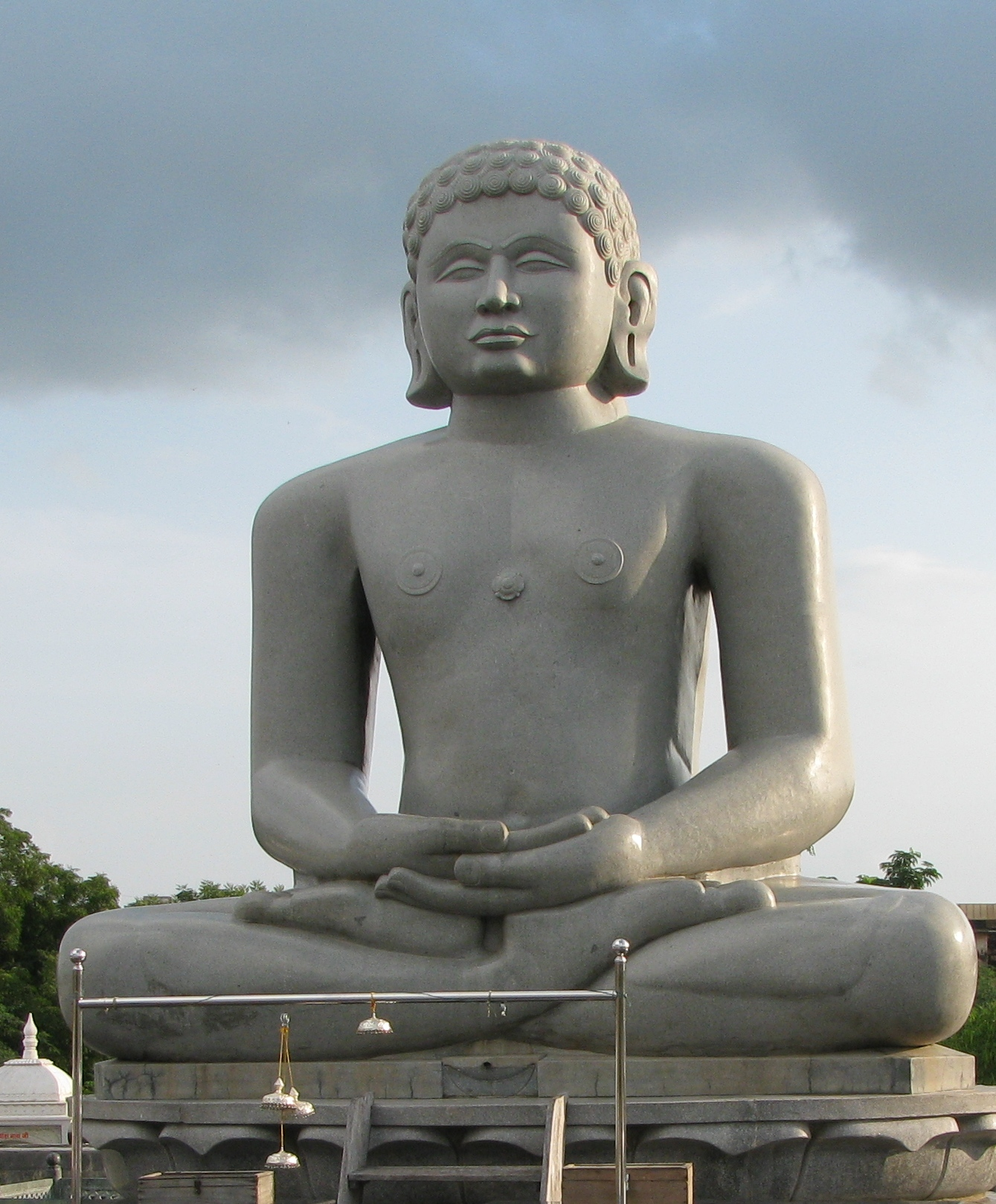 15 feet 3 inch Padmasana Chandraprabha Idol sitting on 5 feet pedestal at Chandragiri Vatika, Tijara, Rajasthan